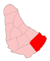 Map of Barbados showing Saint Philip parish.